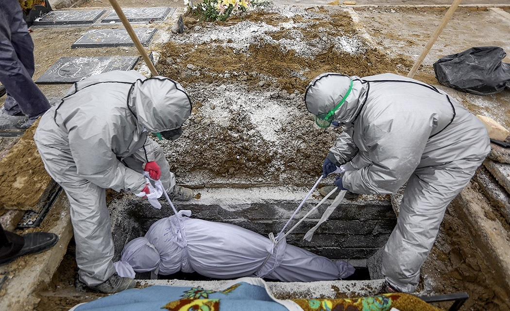 The "eternal home" of those who have died from COVID-19 in Hamadan.